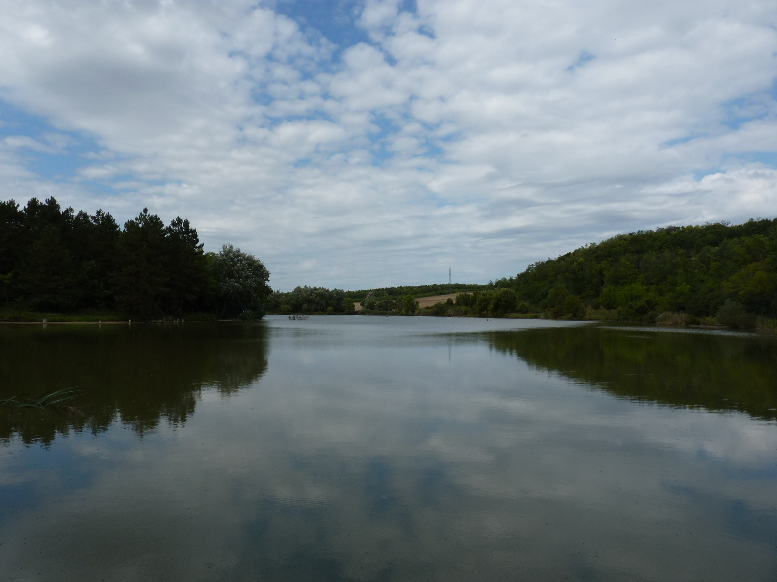 Fishing lake, Vértesacsa